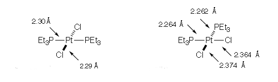 Structure of